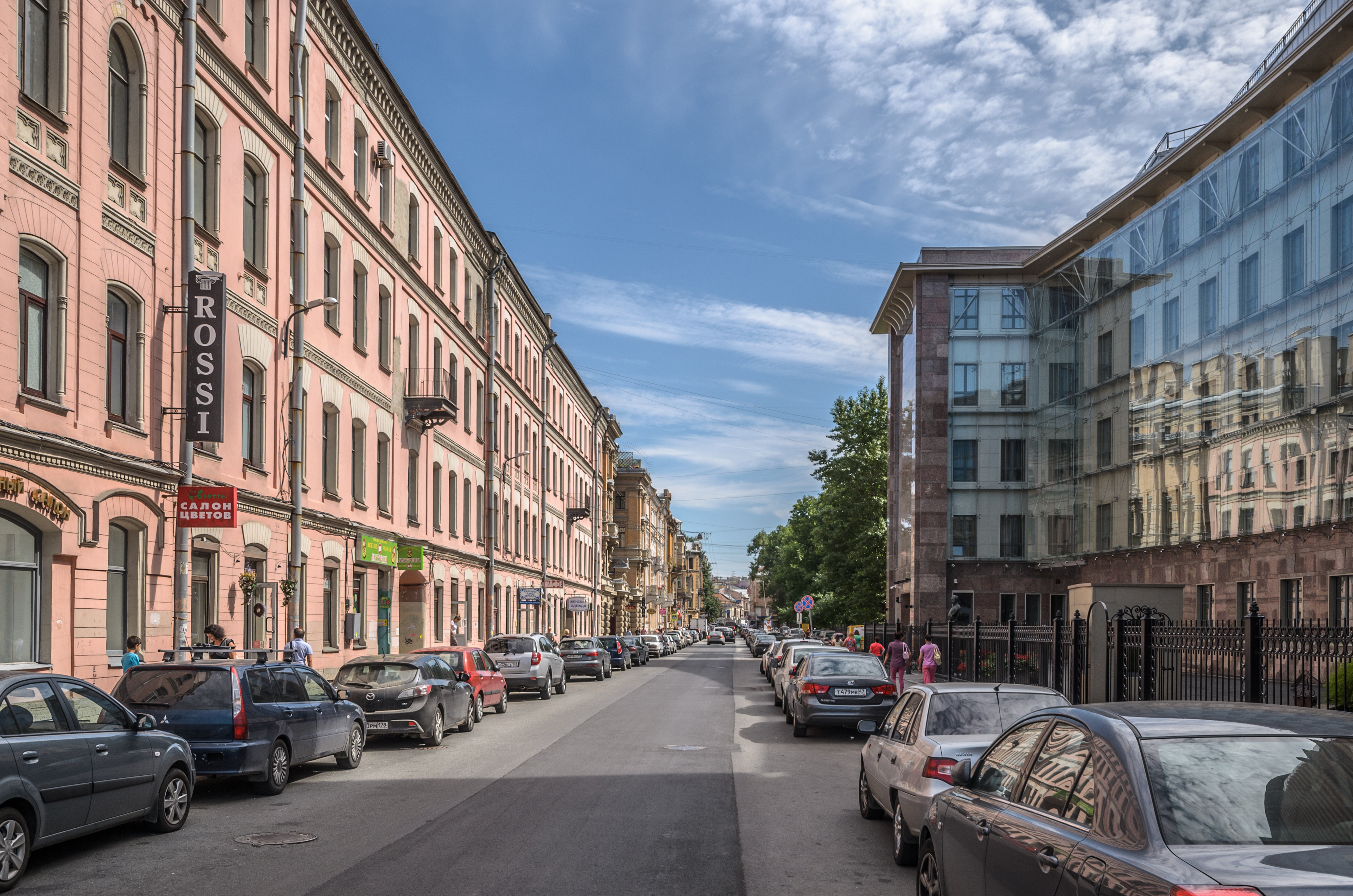 Lomonosova Street in Saint Petersburg